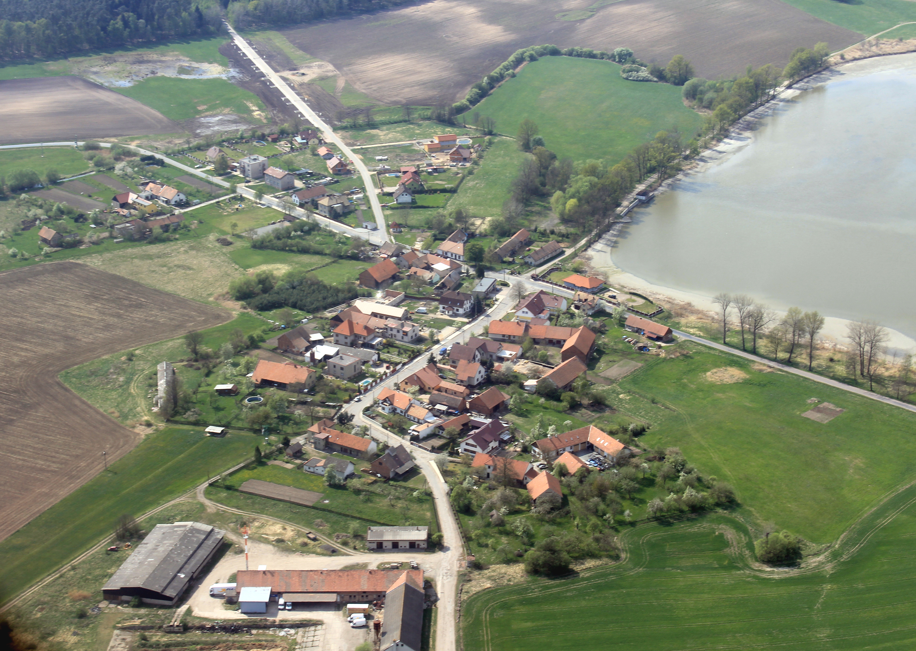 Village Újezd u Sezemic from air, eastern Bohemia, Czech Republic